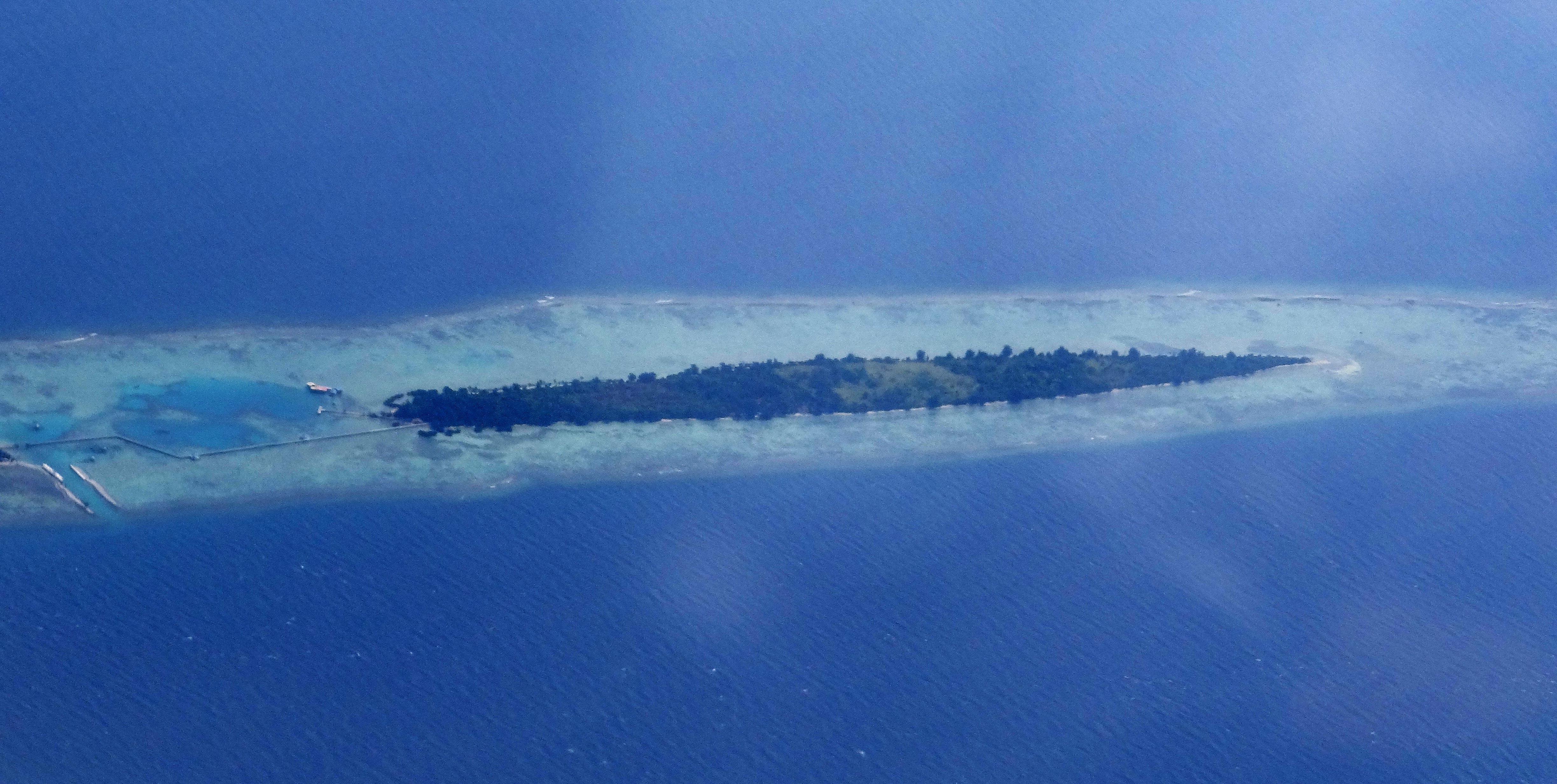 The island Tidung Kecil, one of the islands of the Indonesian Thousand Islands.